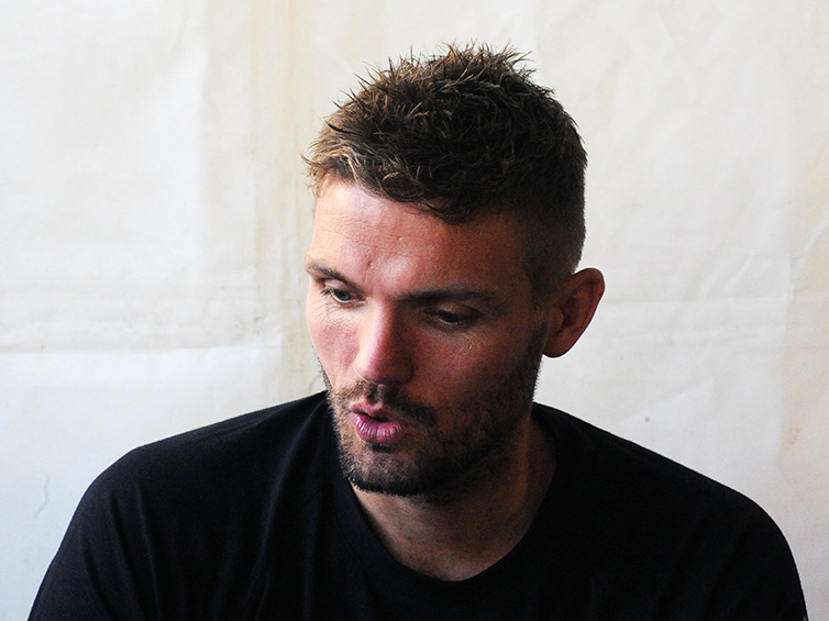 Jos Hoiveeld